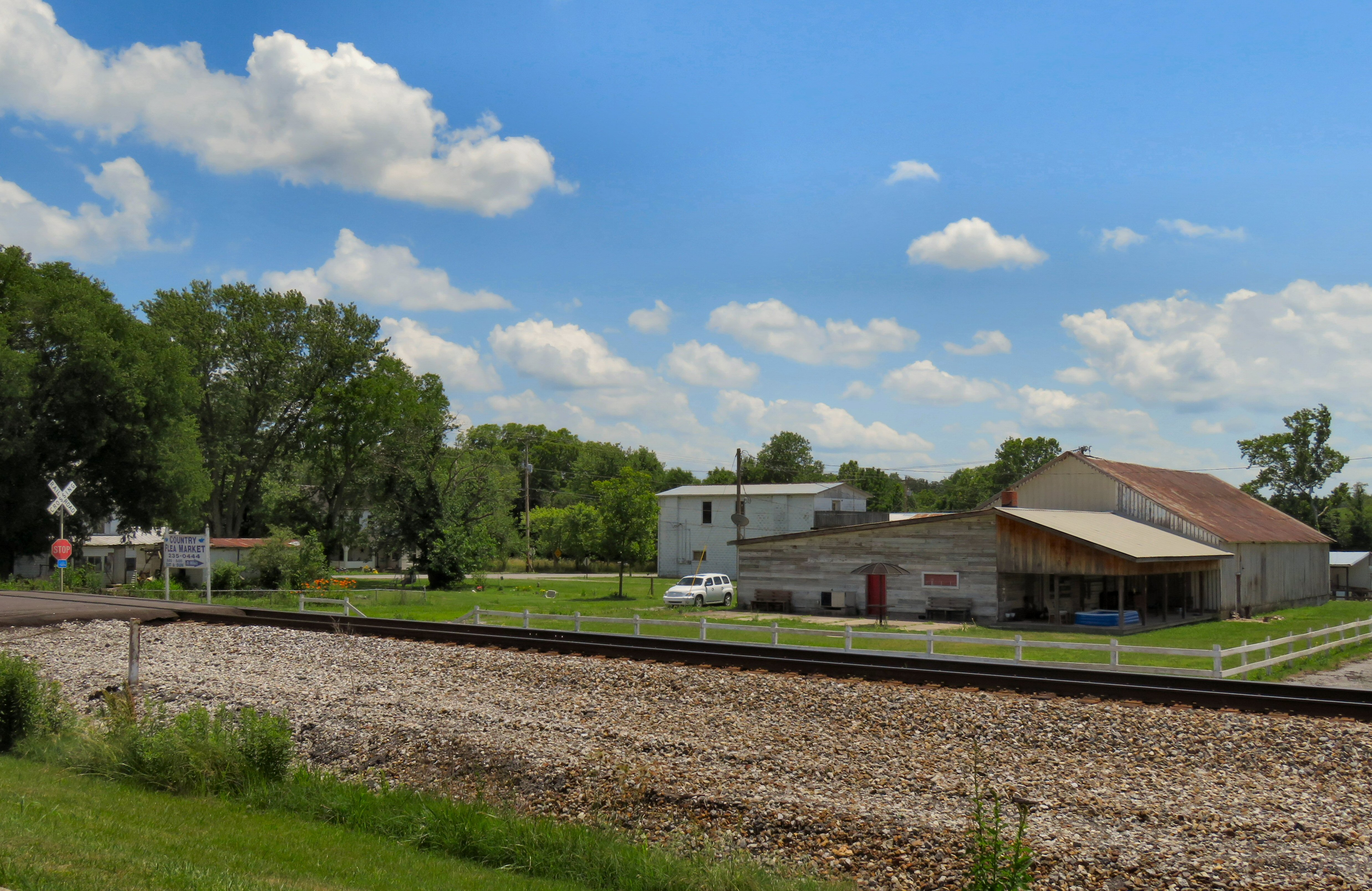 The community of Mohawk, looking southeast from the post office parking lot, in Greene County, Tennessee, United States.